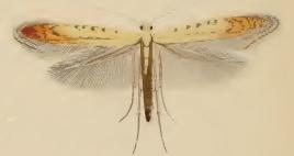 Stainton’s Natural History of the Tineina (1855–1873): Aspilapteryx limosella